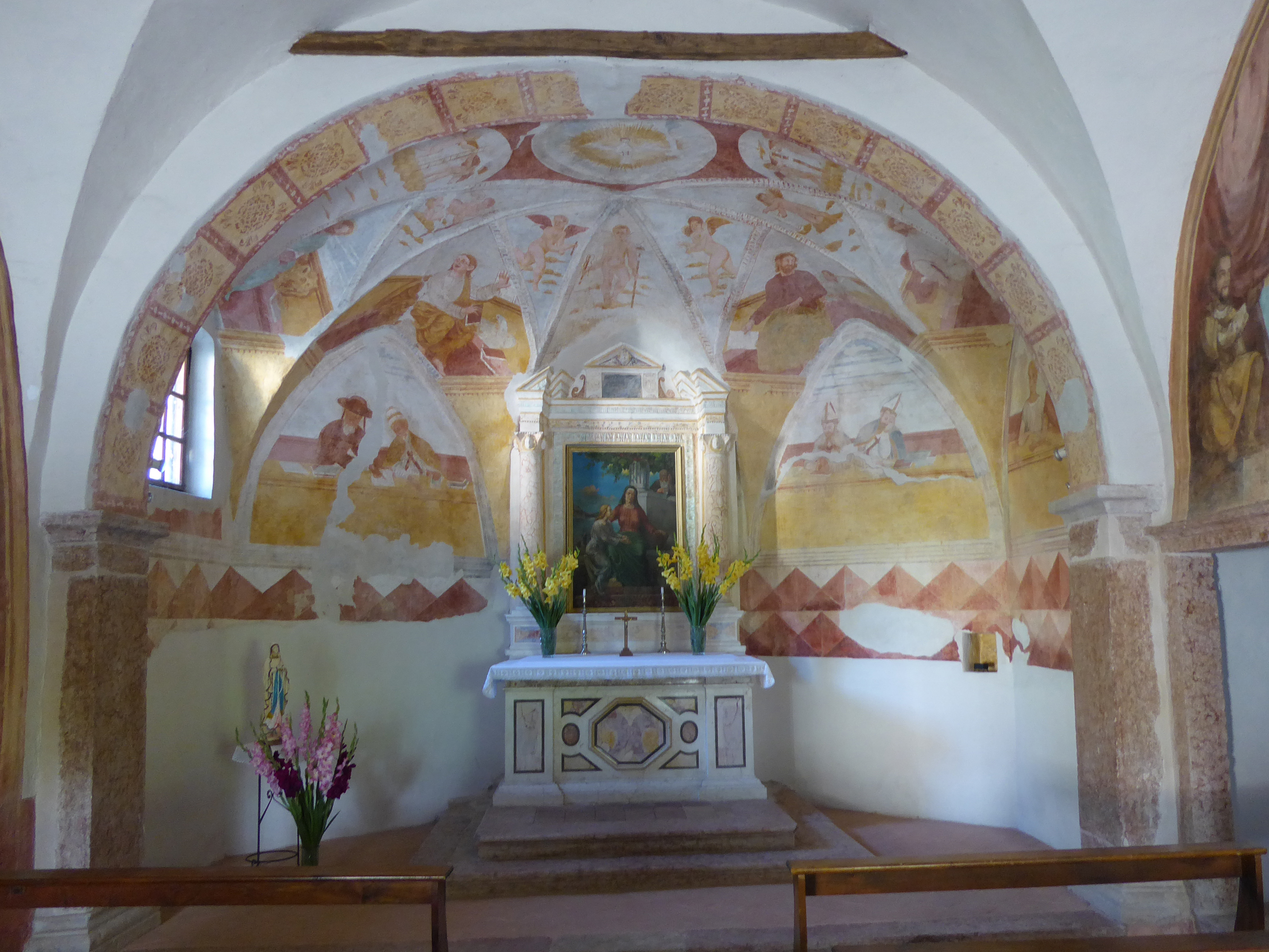 Valle San Felice (Mori, Trentino, Italy), Saint Anne church - Interior